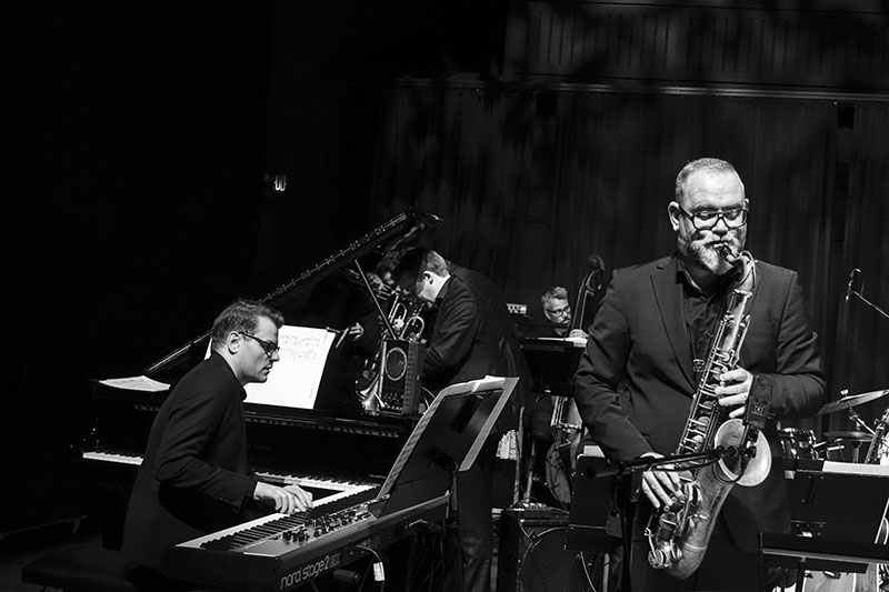 Karl-Martin Almqvist and the Danish Radio Big Band 2016